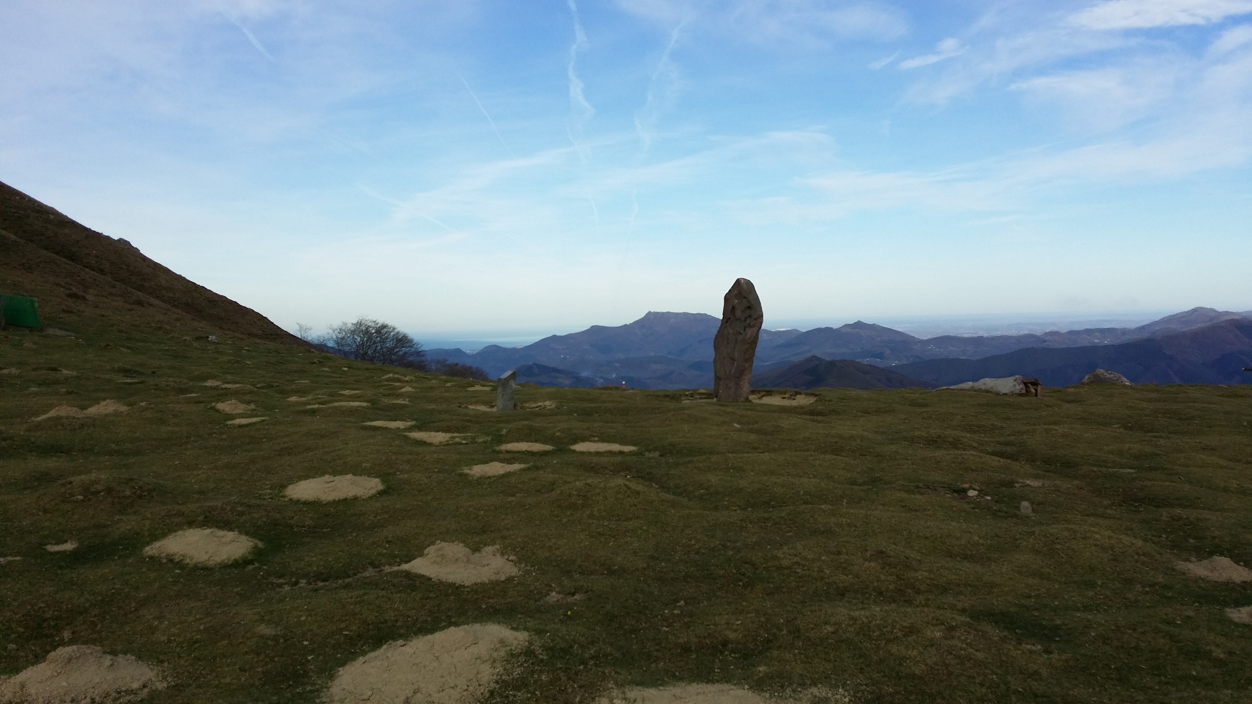 Menhir at Buztitza